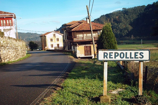 AS-347 en Repolles.